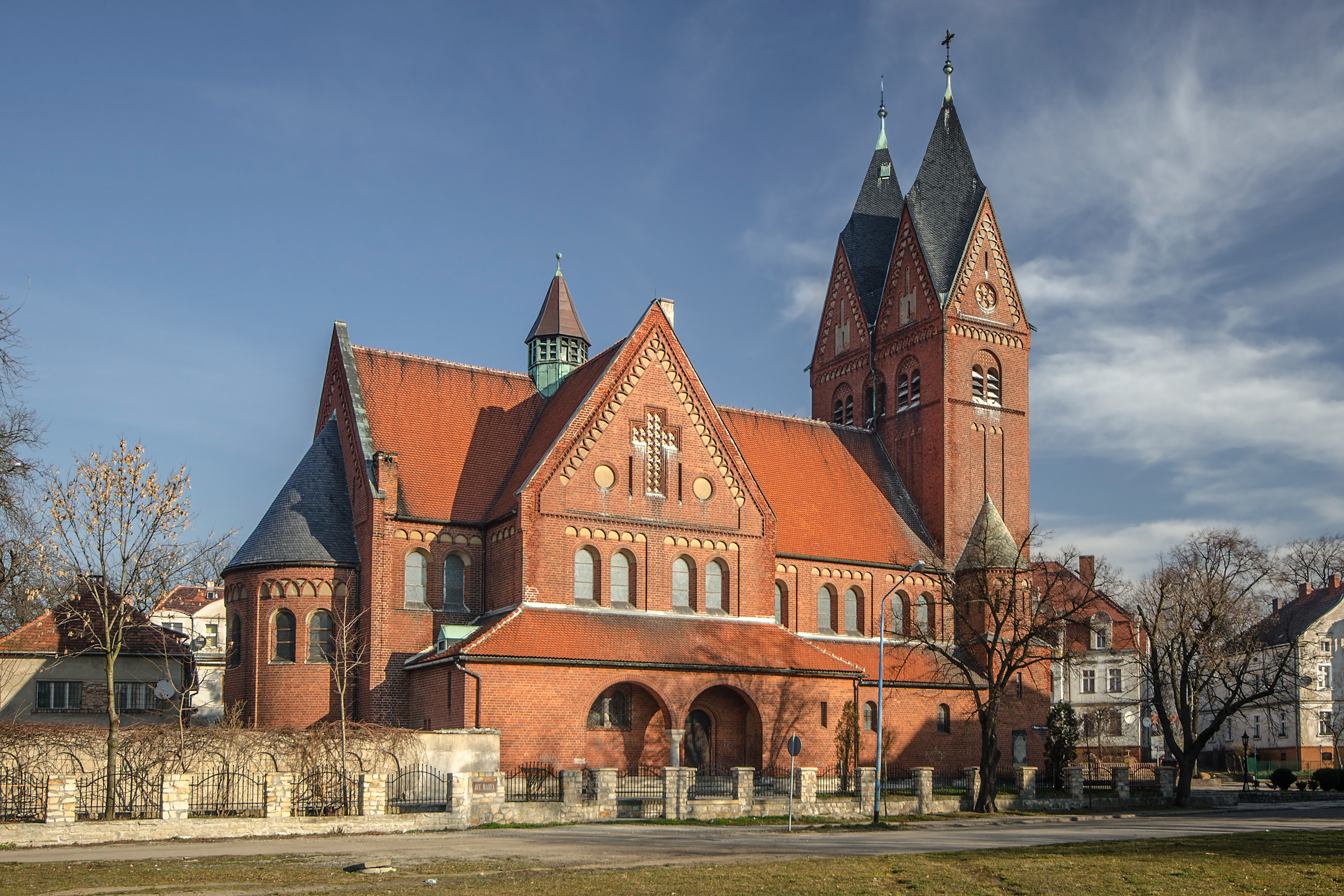 Immaculate Conception church in Chojnów, Lower Silesia Voivodeship